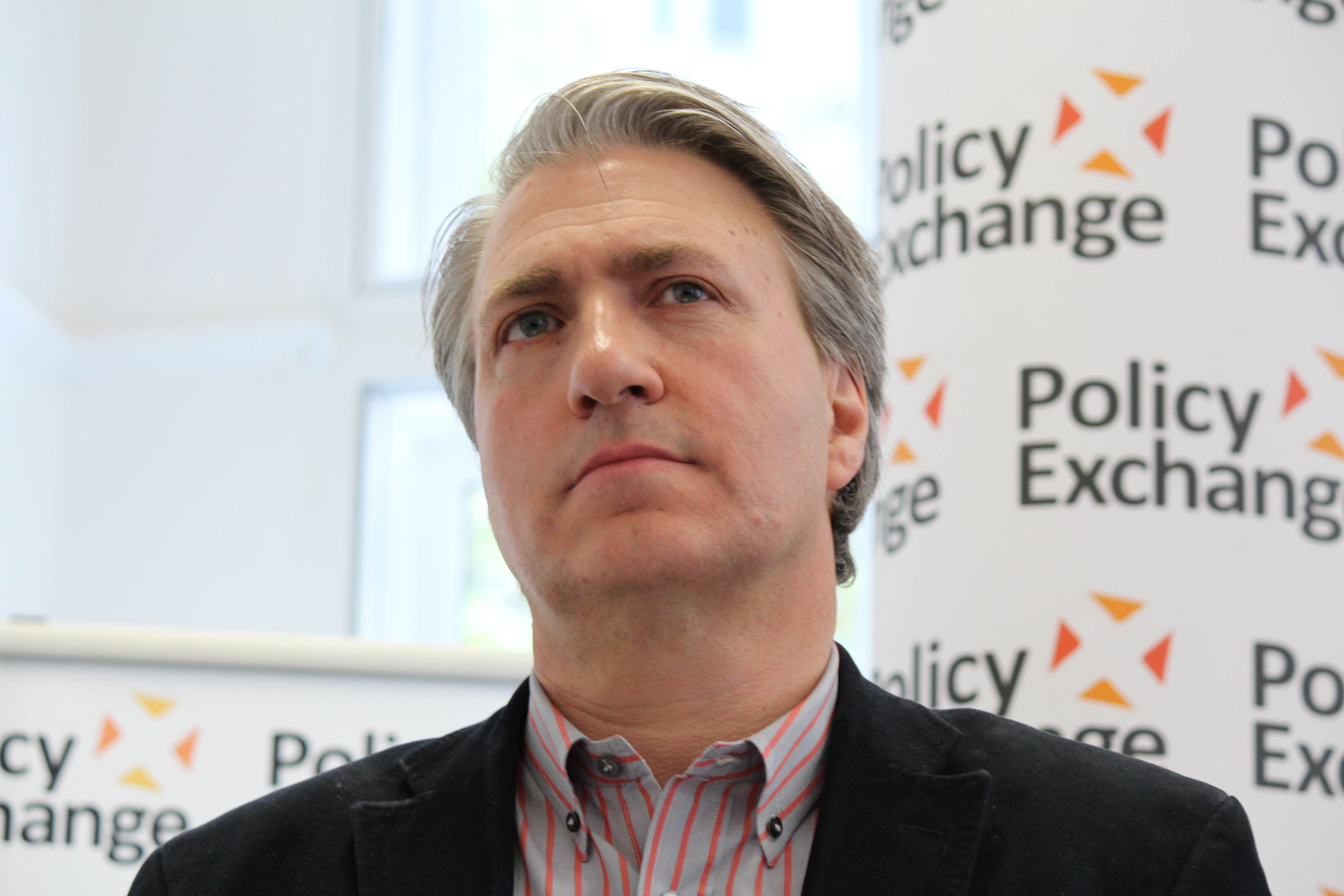 A video of this event will be available shortly at